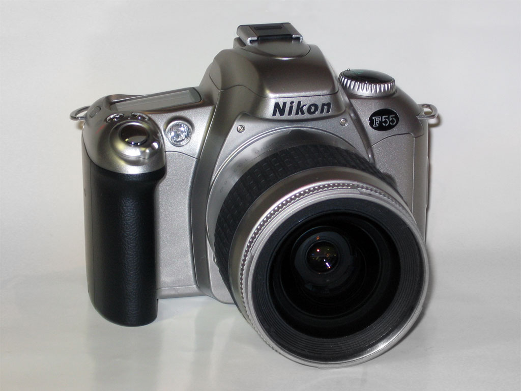 Nikon F55, a single-lens reflex camera.